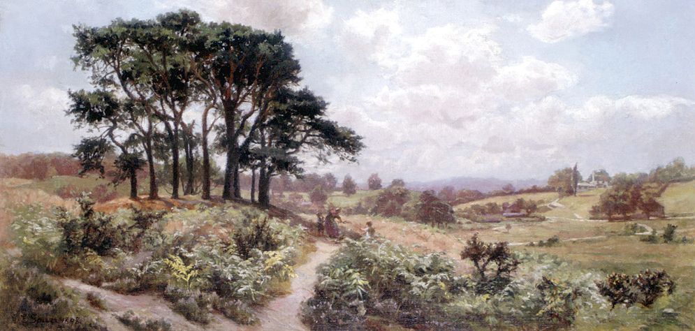 A Surrey Heath, 1898 Gertrude Eleanor Spurr Cutts, OSA Oil on canvas 30.5 x 61 cm (12" x 24") This work was purchased by the Government of Ontario from the 27th annual OSA Exhibition, 1899